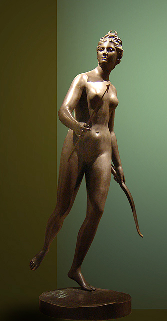 Diana. Bronze, 1790. Background removed